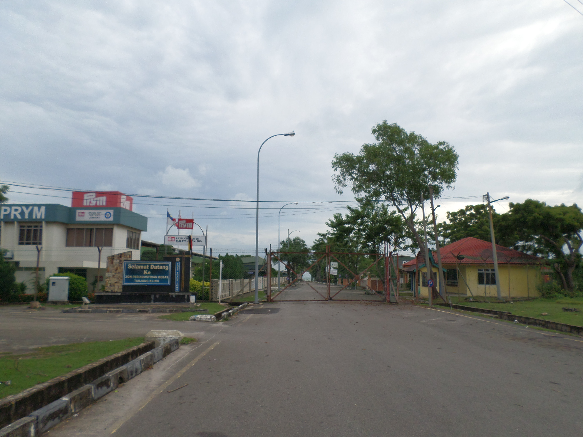 Tanjung Kling Free Industrial Zone, Tanjung Kling, Malacca, MalaysiaBahasa Melayu: Zon Perindustrian Bebas Tanjung Kling, Tanjung Kling, Melaka, Malaysia